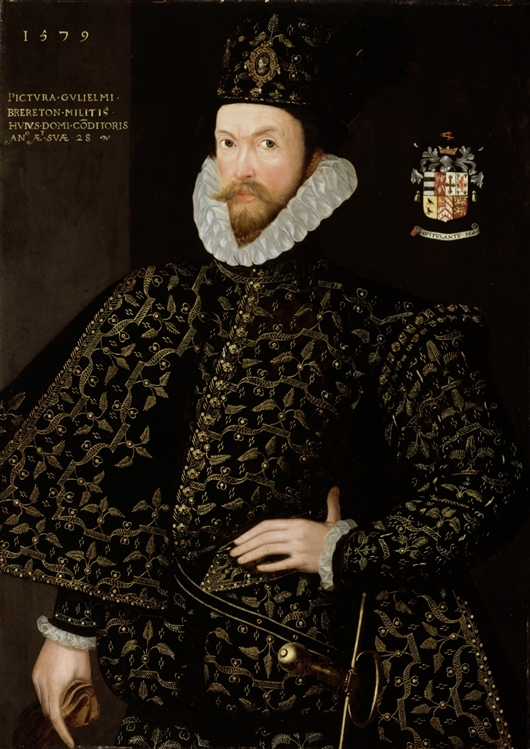 Portrait of Sir William Brereton, 1st Baron Brereton (1550 – 1 October 1631), aged 28 in 1579. Huius Domi Co(n)ditoris ("of this house the founder"). Arms of 7 quarters: 1: Argent, two bars sable (Brereton); 2: Gules, three pheons argent (William le Belward, Baron of Mallpas); 3: Argent, a cross patonce Azure (Radulphus Boro' de Malpass, Baron of Malpas); 4: Argent, a lion rampant gules between three pheons sable (Egerton); 5: Or, two ravens sable (Corbet); 6: Ermine, three chevrons gules, on a canton gules a lion passant guardant or (___); 7: Gules, two lions passant argent a label of three points or (Strange). Source: [1]). Compare with File:A Member of the Brereton Family.jpg